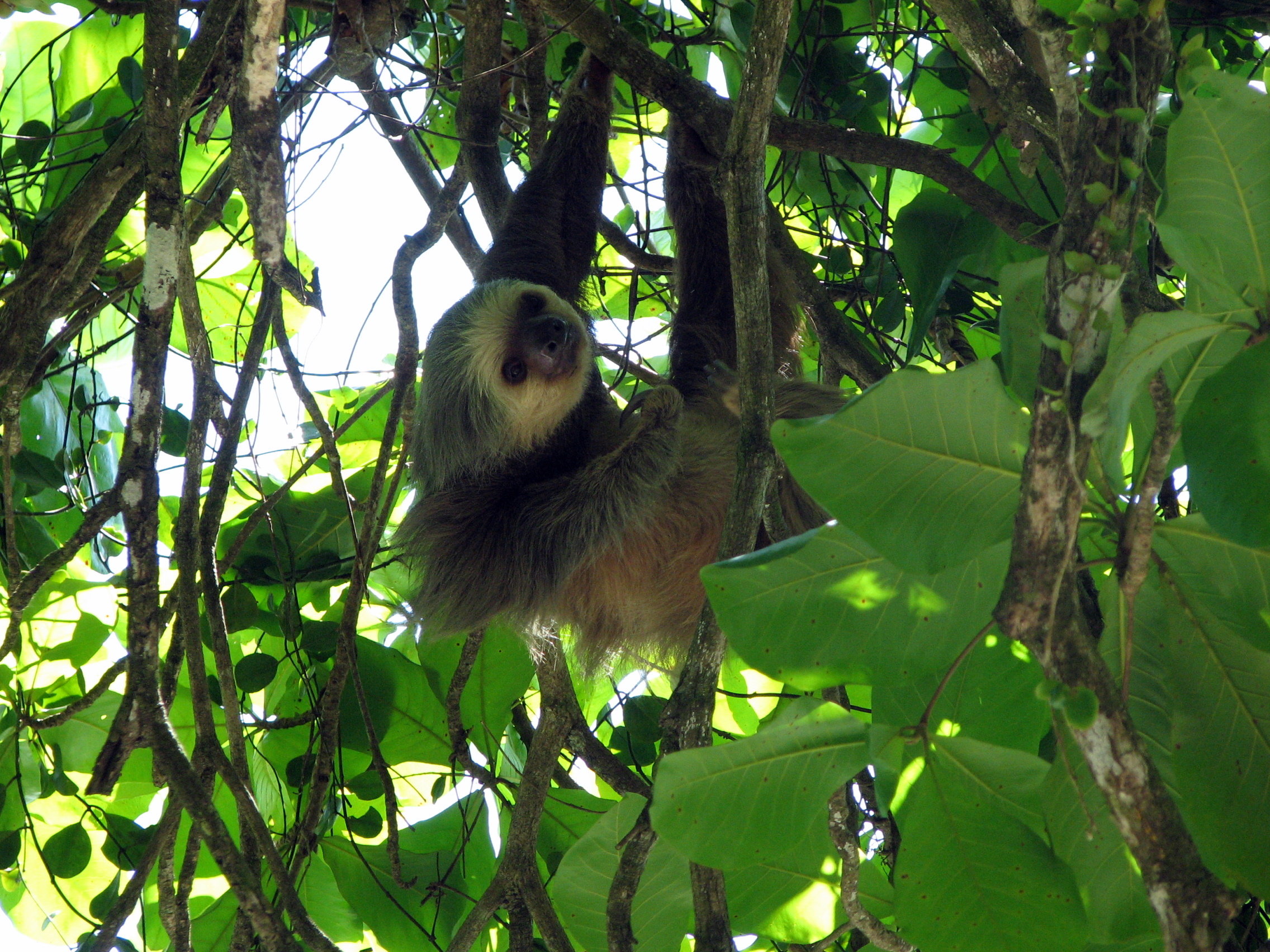 Hoffmann's two-toed sloth (Choloepus hoffmanni) in Manuel Antonio National Park, Costa Rica